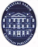 Logo of Croatian Parliament